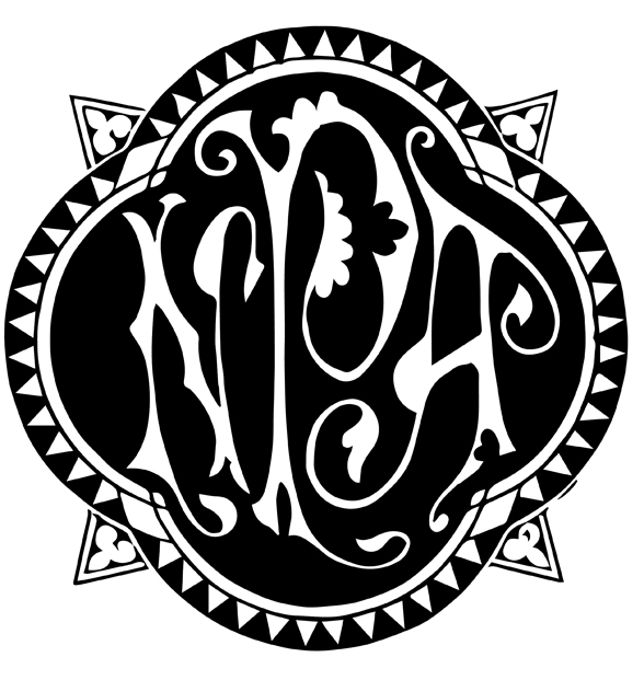 NPA original logo